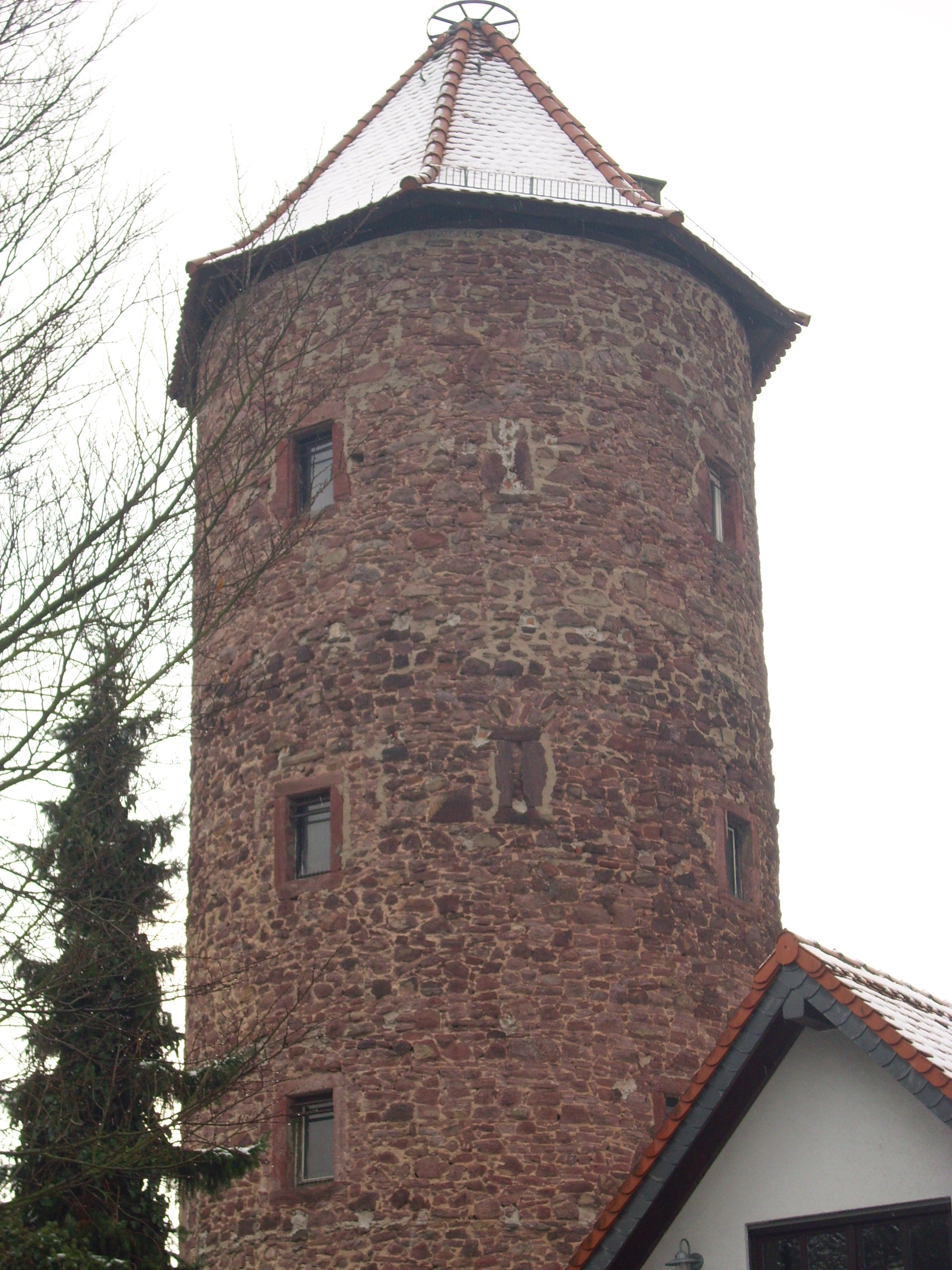 As the blunt tower also the pointed tower is part of the old city wall of Langen